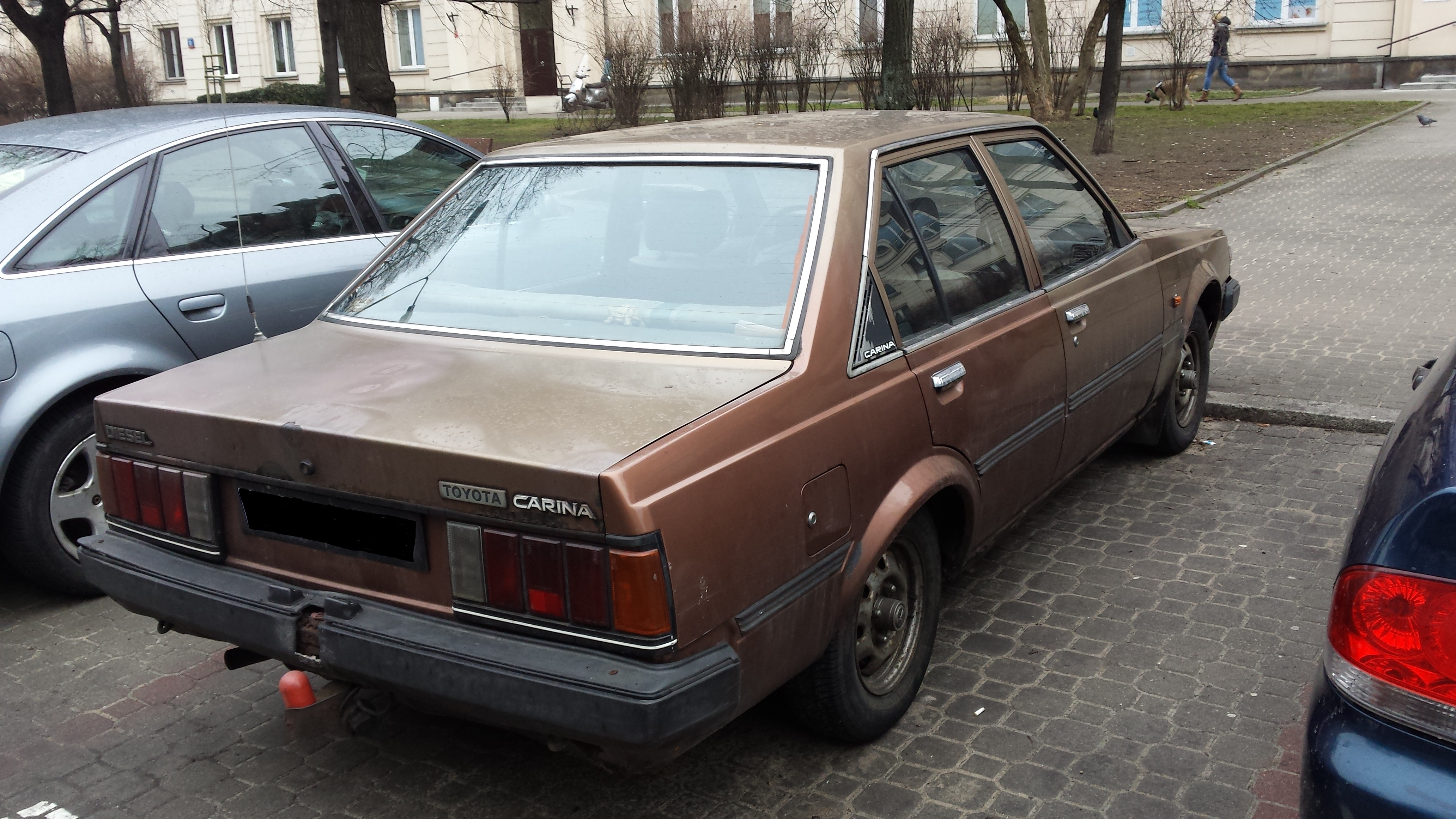 Toyota Carina seen in Warsaw